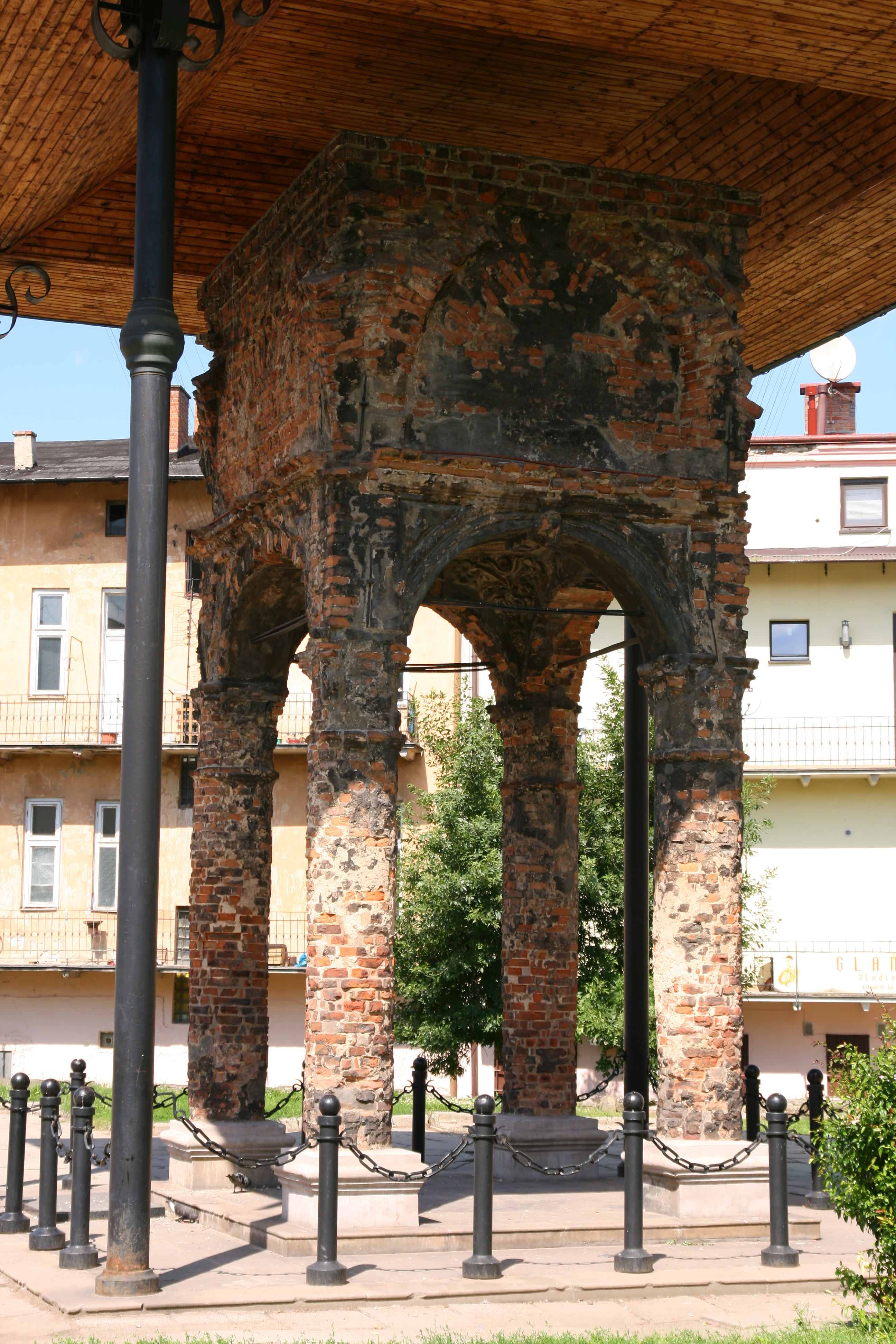 Bimah of Old Synagogue in Tarnów.